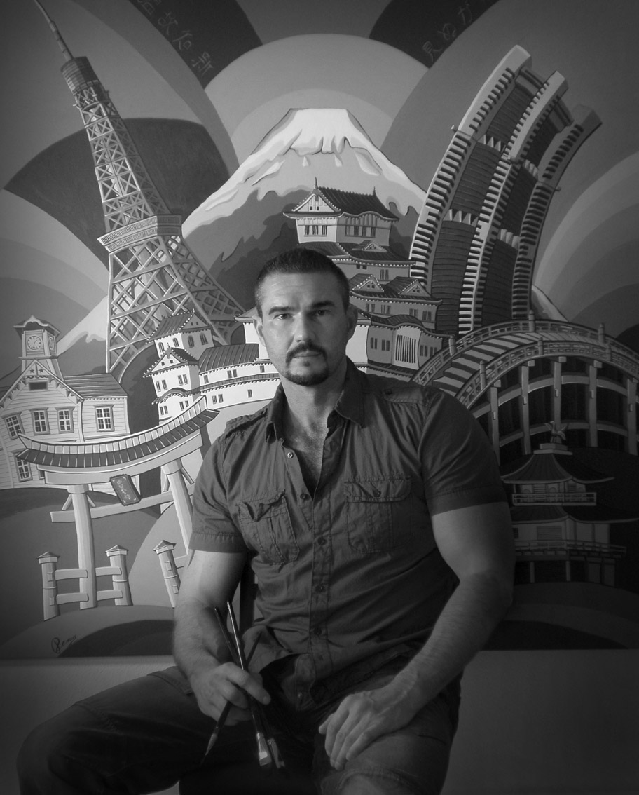 Painter Marc Remus in front of one of his Fun Cities & Countries paintings. "Japan," 150x150cm, Acrylic on canvas